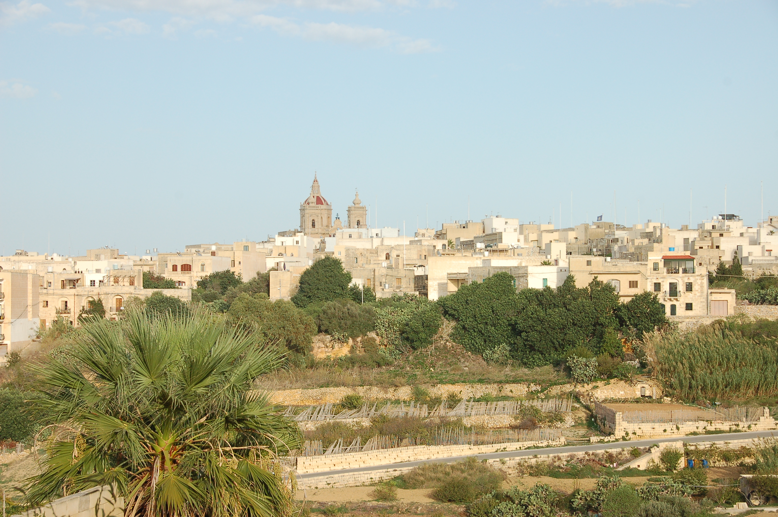 View over the village Xagħra with the Nativity of the Blessed Virgin Mary in the middle